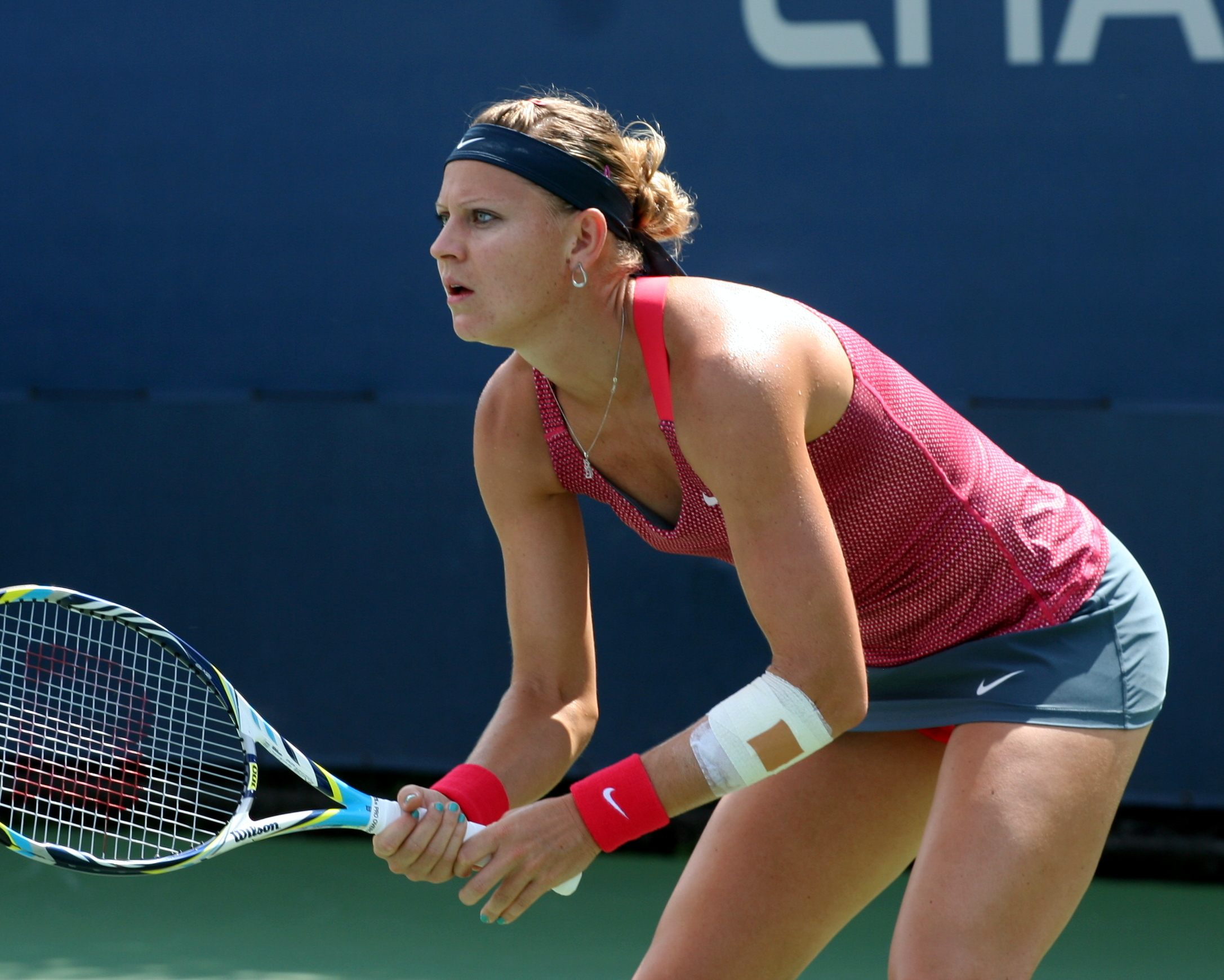 Tuesday, August 27